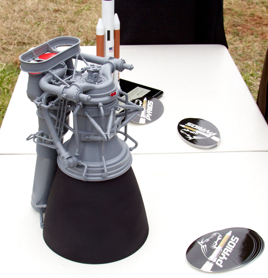 A small model of the proposed F-1B design, on display at the gas generator test firing. Visible in foreground and middle are Pyrios stickers with logo. I grabbed a bunch of these.